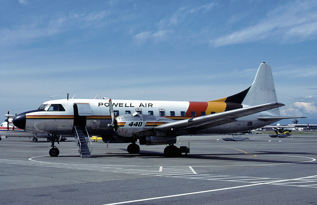 Powell Air Convair 440-62 Metropolitan C-GKFC at Vancouver Intnational Airport